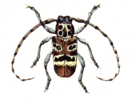 Mesosa curculionoides, from Calwer's Käferbuch, Table 39, Picture 5. Taxonomy was updated to 2008, using mostly the sites Fauna Europaea and BioLib. Please contact Sarefo if the determination is wrong!